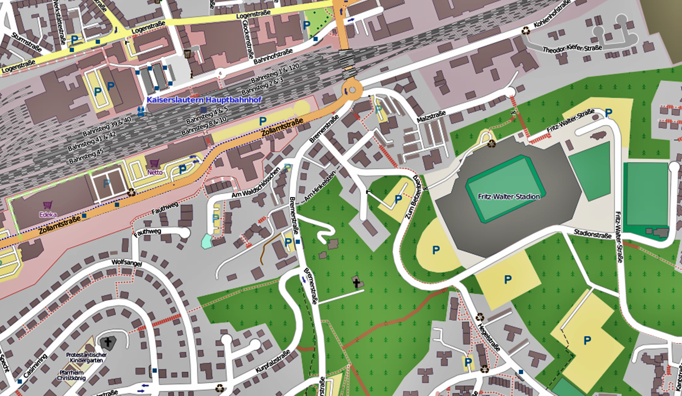 This map may be incomplete, and may contain errors. Don't rely solely on it for navigation.